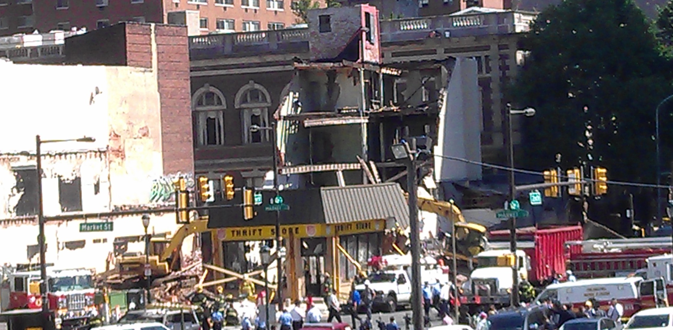 Rescue operations on the afternoon of the fatal building collapse at 22nd and Market Streets, Philadelphia. Viewed looking southeast from the JFK Boulevard viaduct